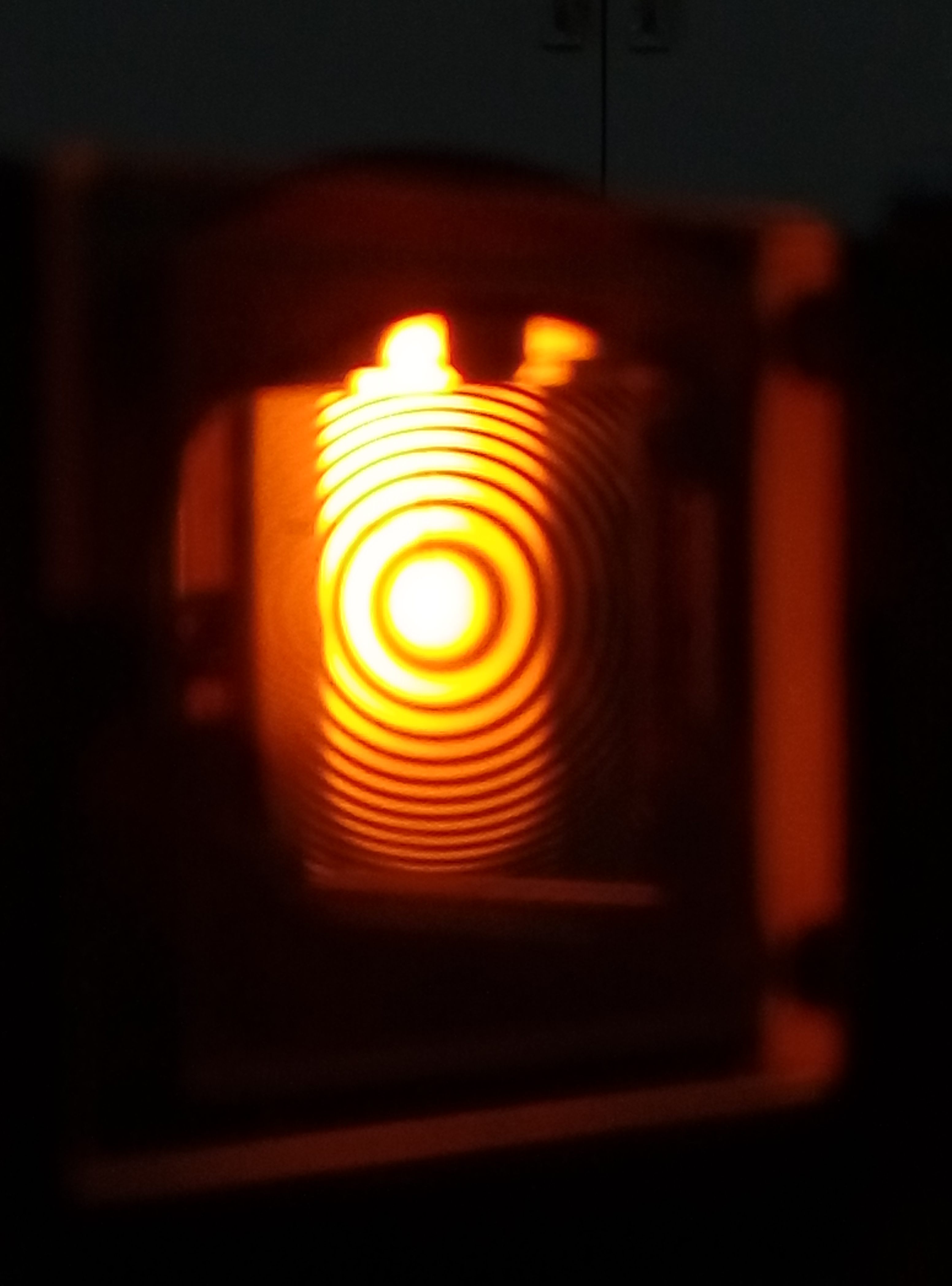 This photo shows the fringe pattern formed by the Michelson interferometer,using monochromatic light (sodium D lines). Photo was taken at the laboratory of physics of Anhui Normal University.